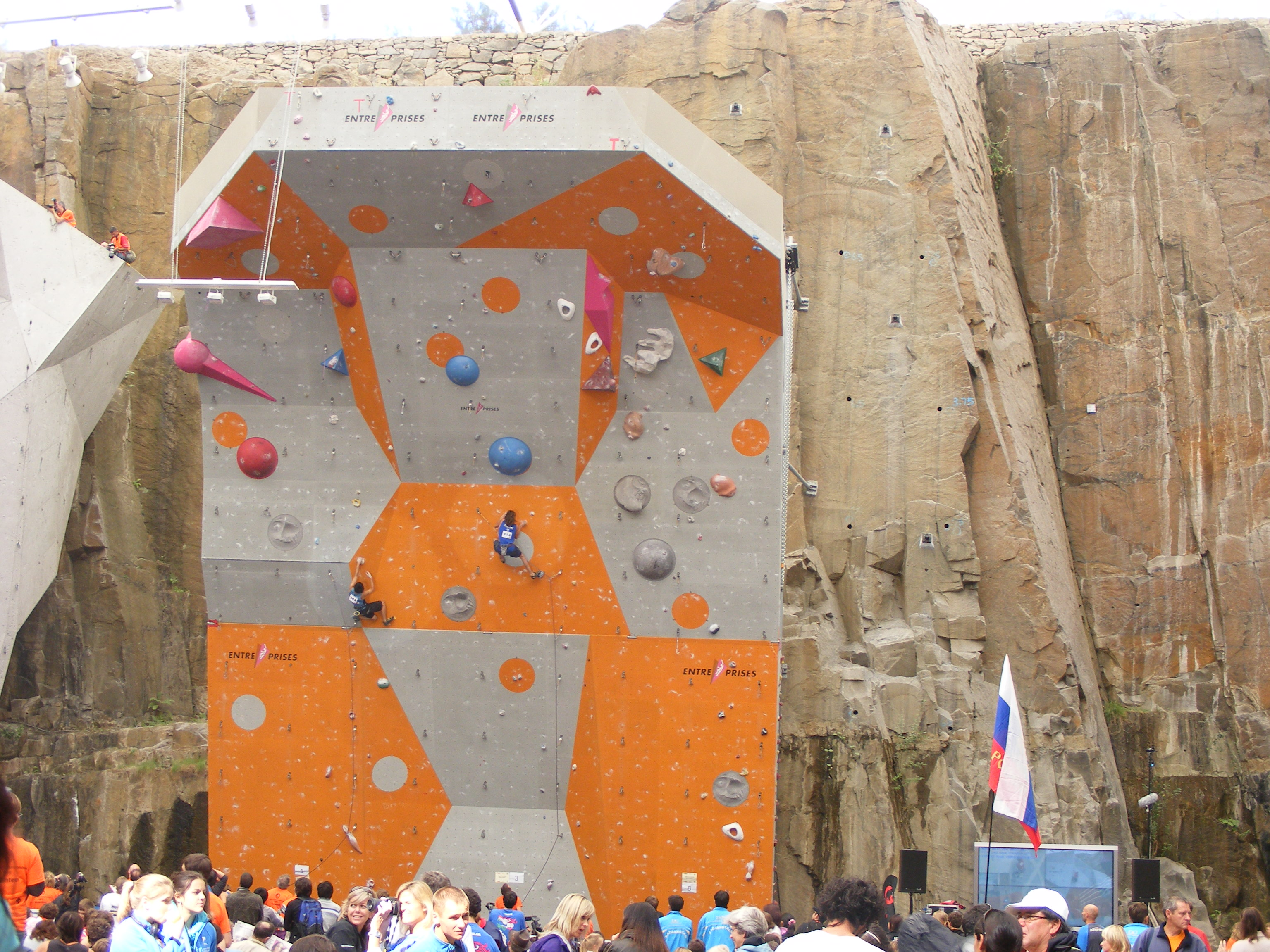 Interior shot of Edinburgh International Climbing Arena, showing the new championship wall. Ratho, near Edinburgh, Scotland.